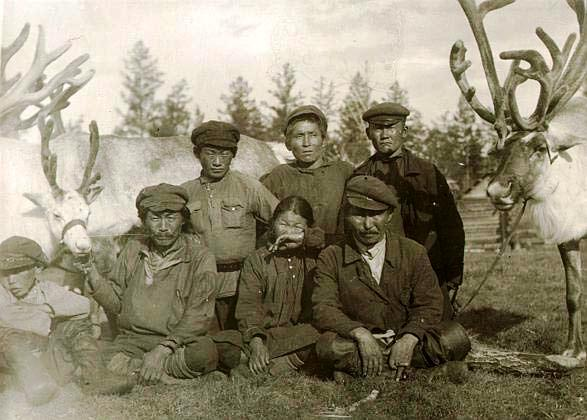 Tofalar rainherders at Nizhneudinsk town in Irkutsk Governorate of the Russian Empire, early XX century.